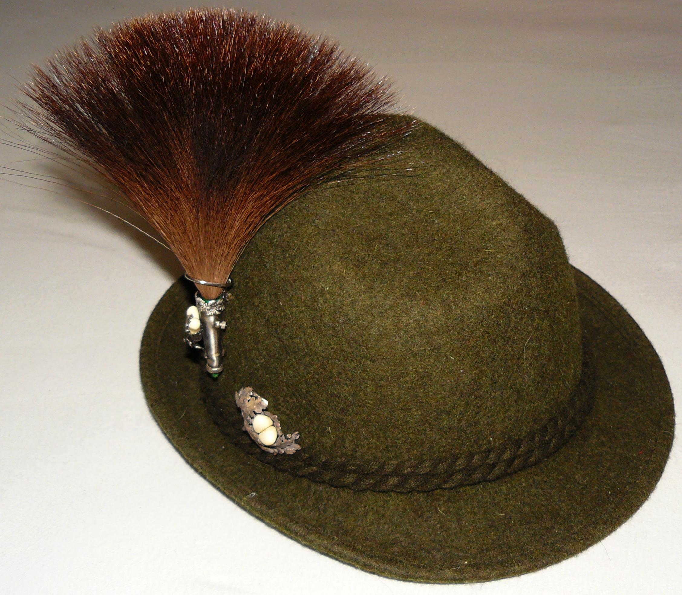 Real Gamsbart from a Chamois on an Austrian (Styrian) hat